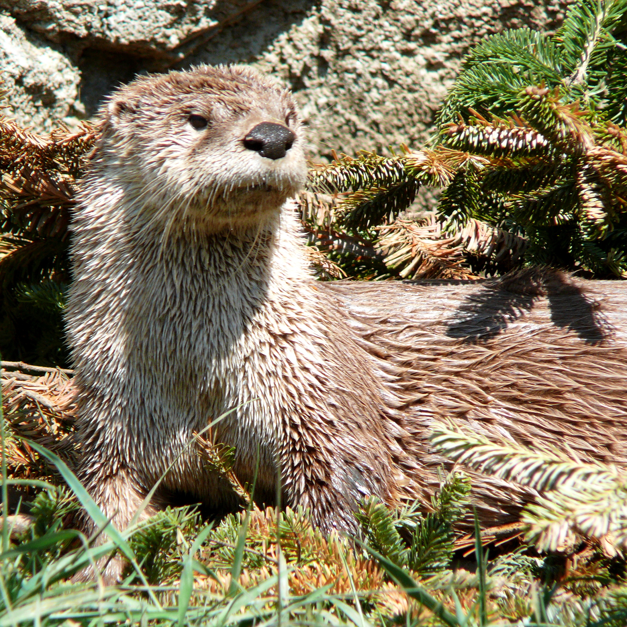 A North American River Otter (Lontra canadensis) wakes from a nap at the Grandfather Mountain Animal Habitat. Photo taken with a Panasonic Lumix DMC-FZ50 in Avery County, NC, USA.